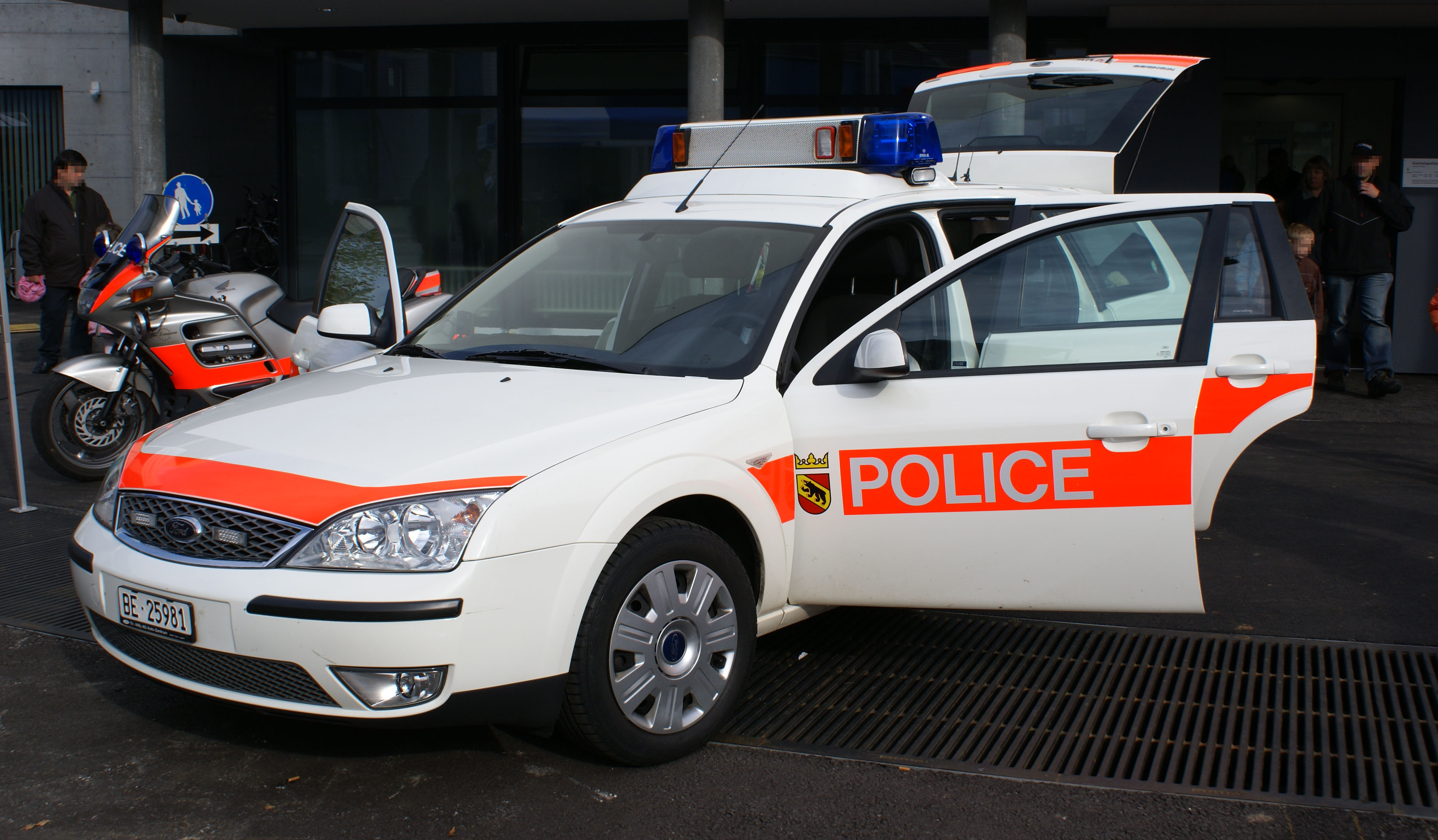 A patrol car and motorcycle of the cantonal police of Berne, Switzerland.